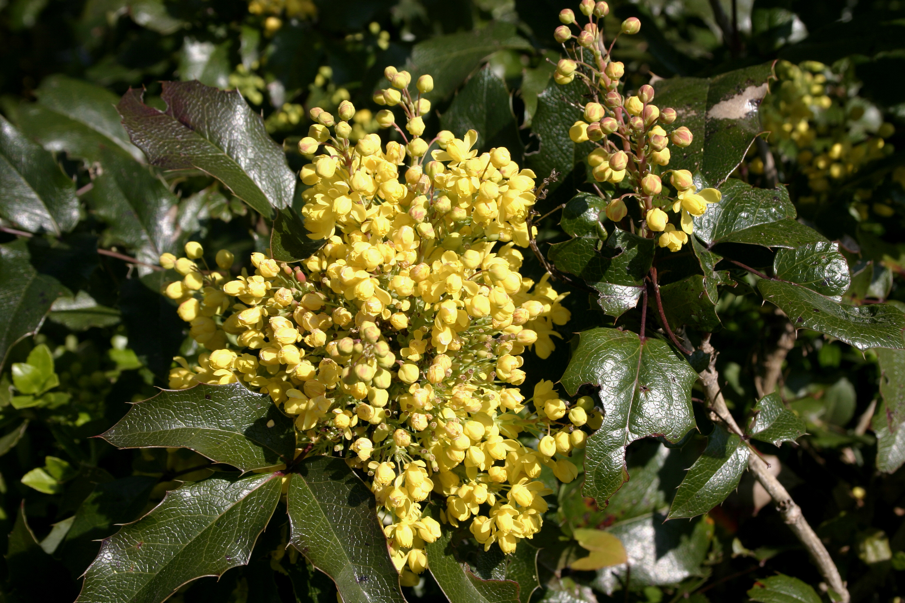 Mahonia aquifolium